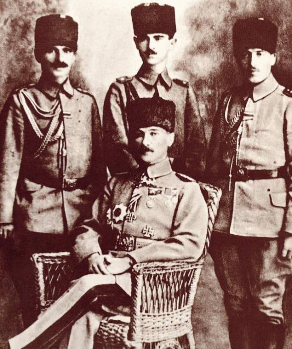 Mustafa Kemal Pasha (Atatürk) with his adjutants as the Commander of the Yildirim Army Group; right to left: Cevat Abbas (Gürer), Şükrü (Tezer), and Salih (Bozok). 1917 or 1918, Aleppo.